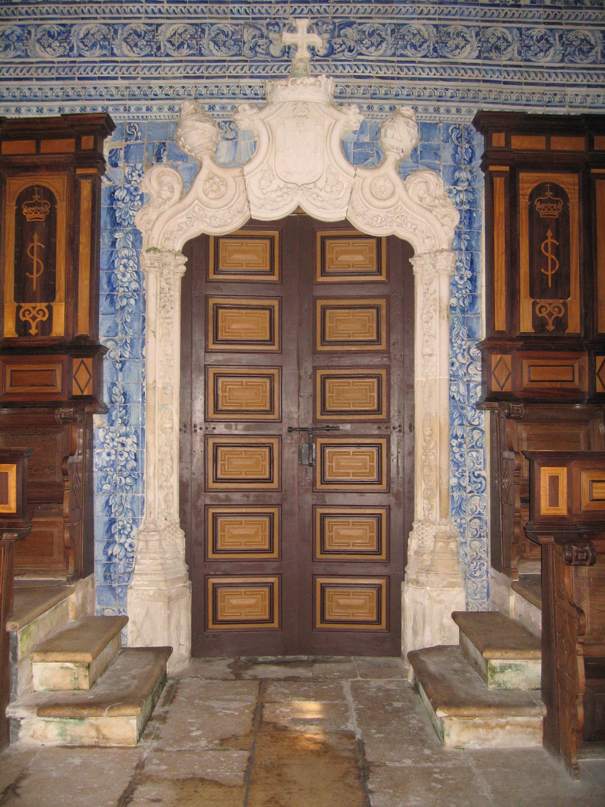 Alcobaça, Portugal, Monastery of Cos, choir, Manueline door, 16th century